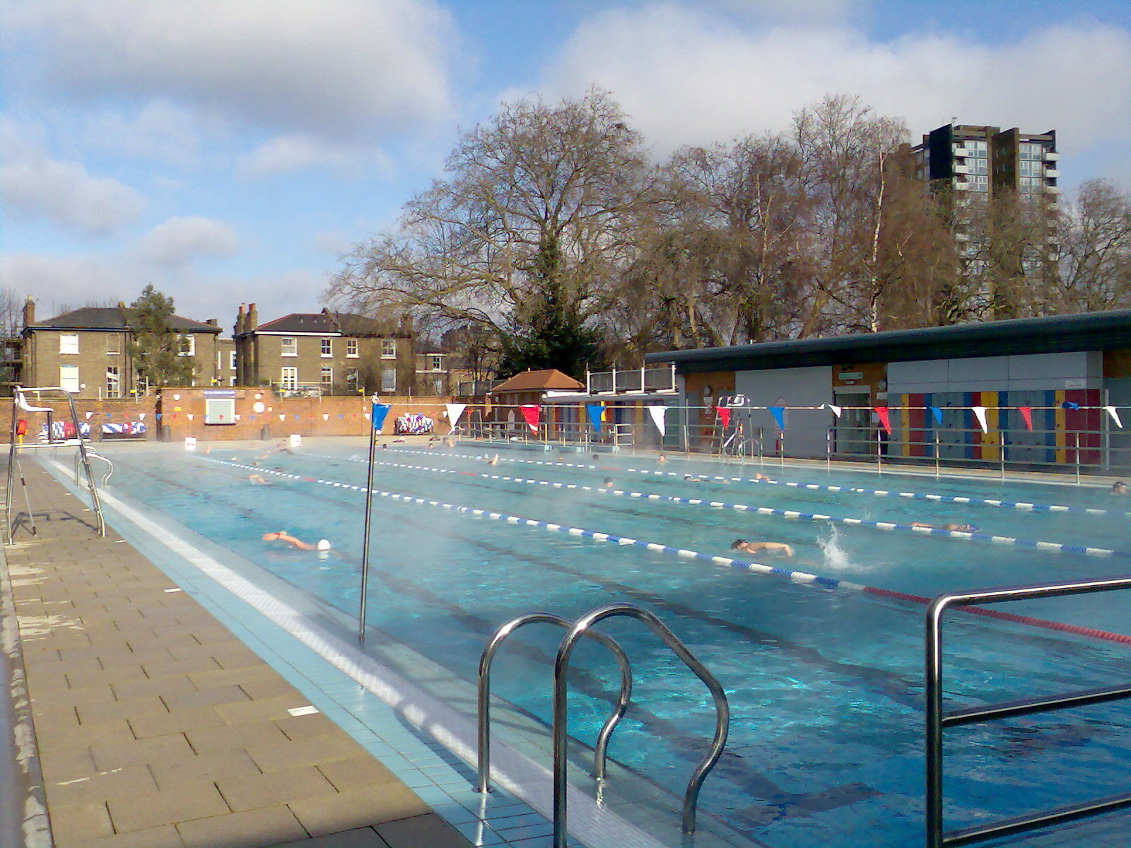 London Fields Lido Camera: Nokia 6233 License on Flickr (2011-02-10): CC-BY-2.0 Flickr tags: London, Fields, Lido